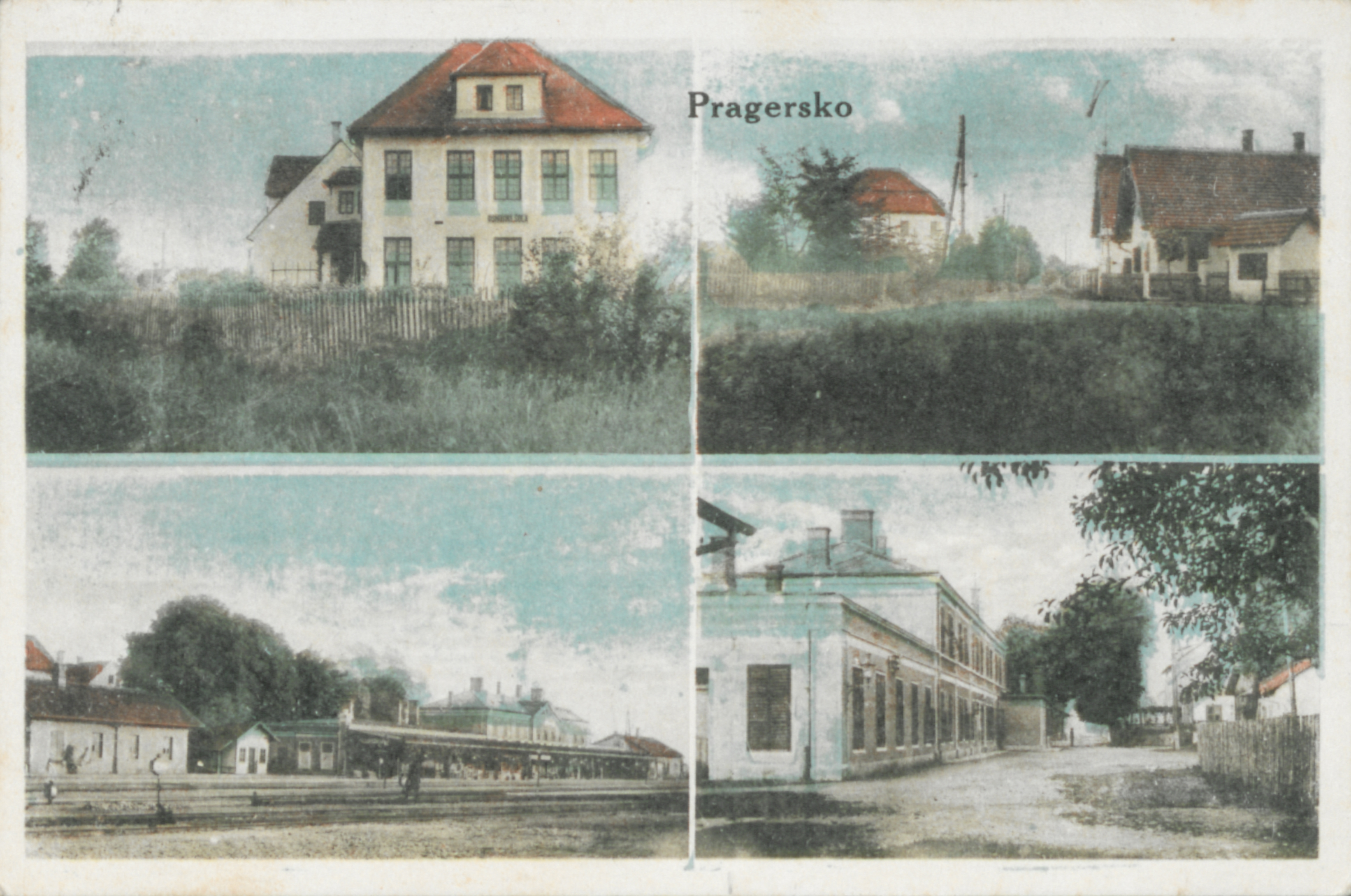 Postcard of Pragersko